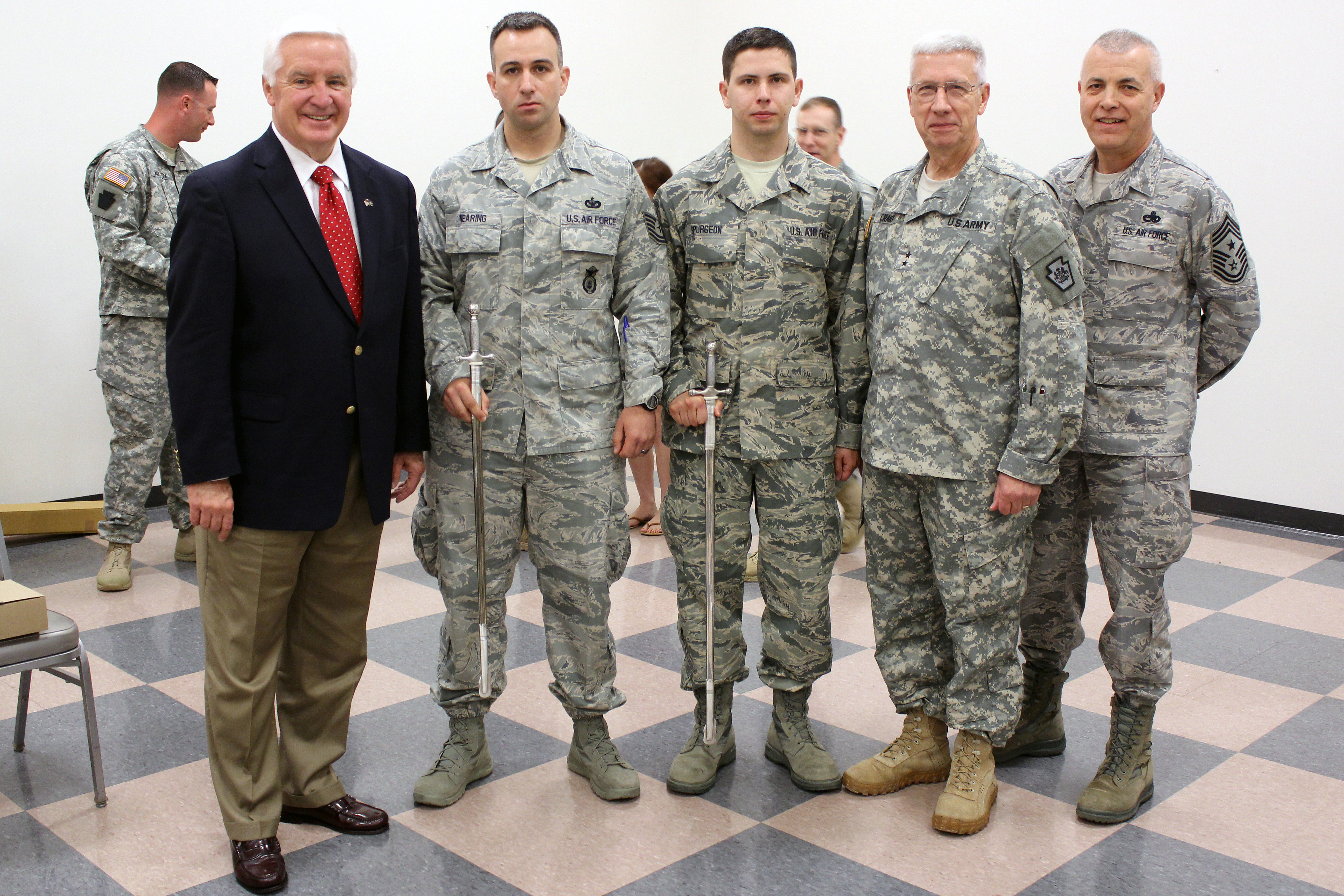 FORT INDIANTOWN GAP, Pa. -- Pennsylvania Governor Tom Corbett and Pennsylvania National Guard senior leaders recognized Pennsylvania National Guard soldiers and airmen for their accomplishments during the past year at the 2014 Joint Commanders Call held at the installation, May 31, 2014. Prior to the awards, Governor Corbett thanked attendees for the contributions of Pennsylvania National Guard members and highlighted the success of the recent Vigilant Guard 2014 exercise and outlined various state programs available for veterans. (U.S. Air National Guard photo by Master Sgt. George Roach/Released)